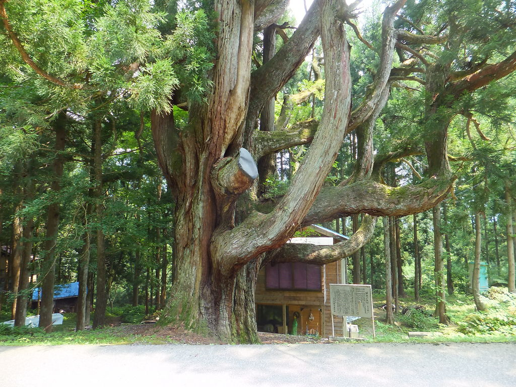 Nakamura no Ōsugi (Enormous Cryptomeria japonica of Nakamura), Nakamura, Kamiichi town, Nakaniikawa District, Toyama Prefecture 930-0433, Japan